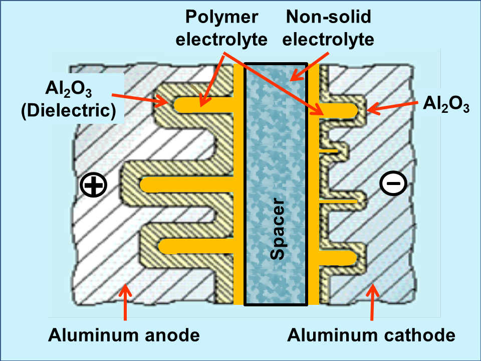 construction principle of a hybrid polymer aluminum electrolytic capacitor